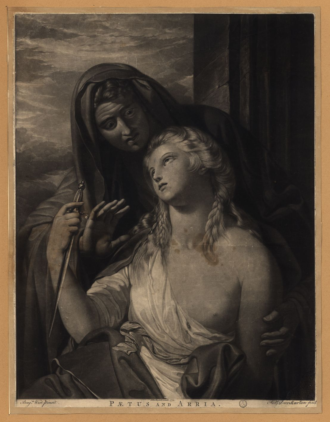 Paetus and Arria, 46 × 35,4 cm. Benj. n West pinxit. Rob. Dunkarton fecit. John Boydell excudit 1773